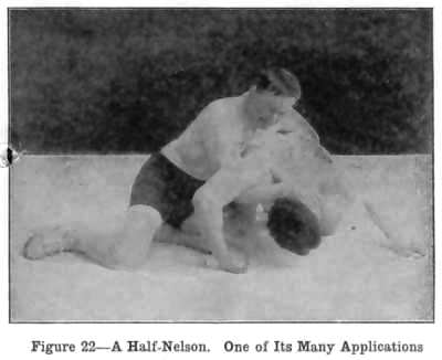 Half Nelson as illustrated the scan of Figure 22 in Lessons in Wrestling & Physical Culture.